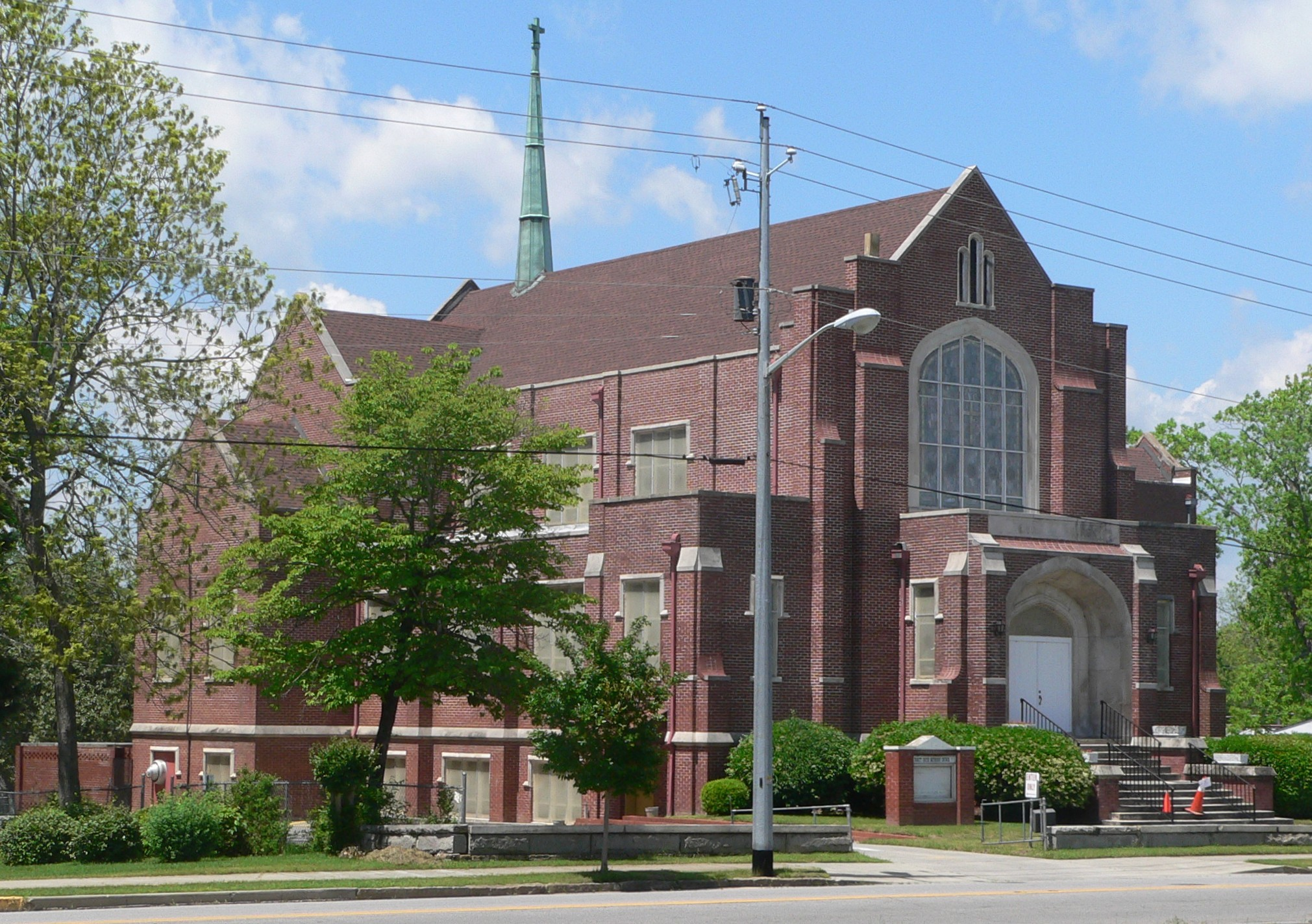 Trinity United Methodist Church, located on west side of Boulevard Street in Orangeburg, South Carolina; seen from the southeast.